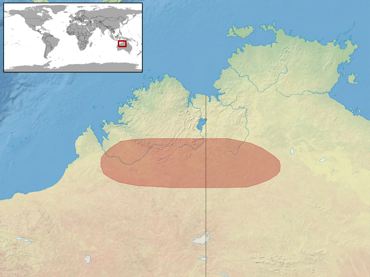 geographic distribution of Gehyra pilbara (Native: Australia (Northern Territory, Western Australia))